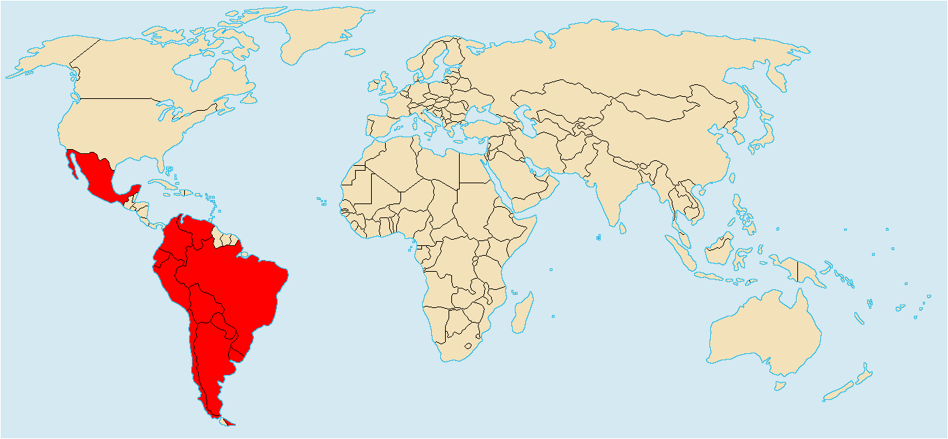 ALALC members